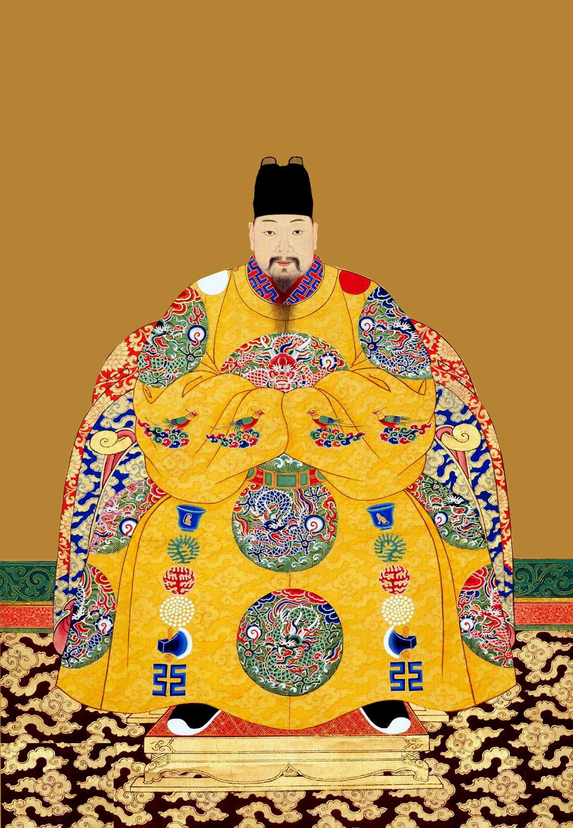 Prince Zhu Youyuan (朱祐杬) (1476-1519) in ceremonial uniform, anon. Ming Artist, approx 1521-1524, reign of Jingtai Emperor. Hanging Scroll, Colors on Silk, Palace Museum Beijing